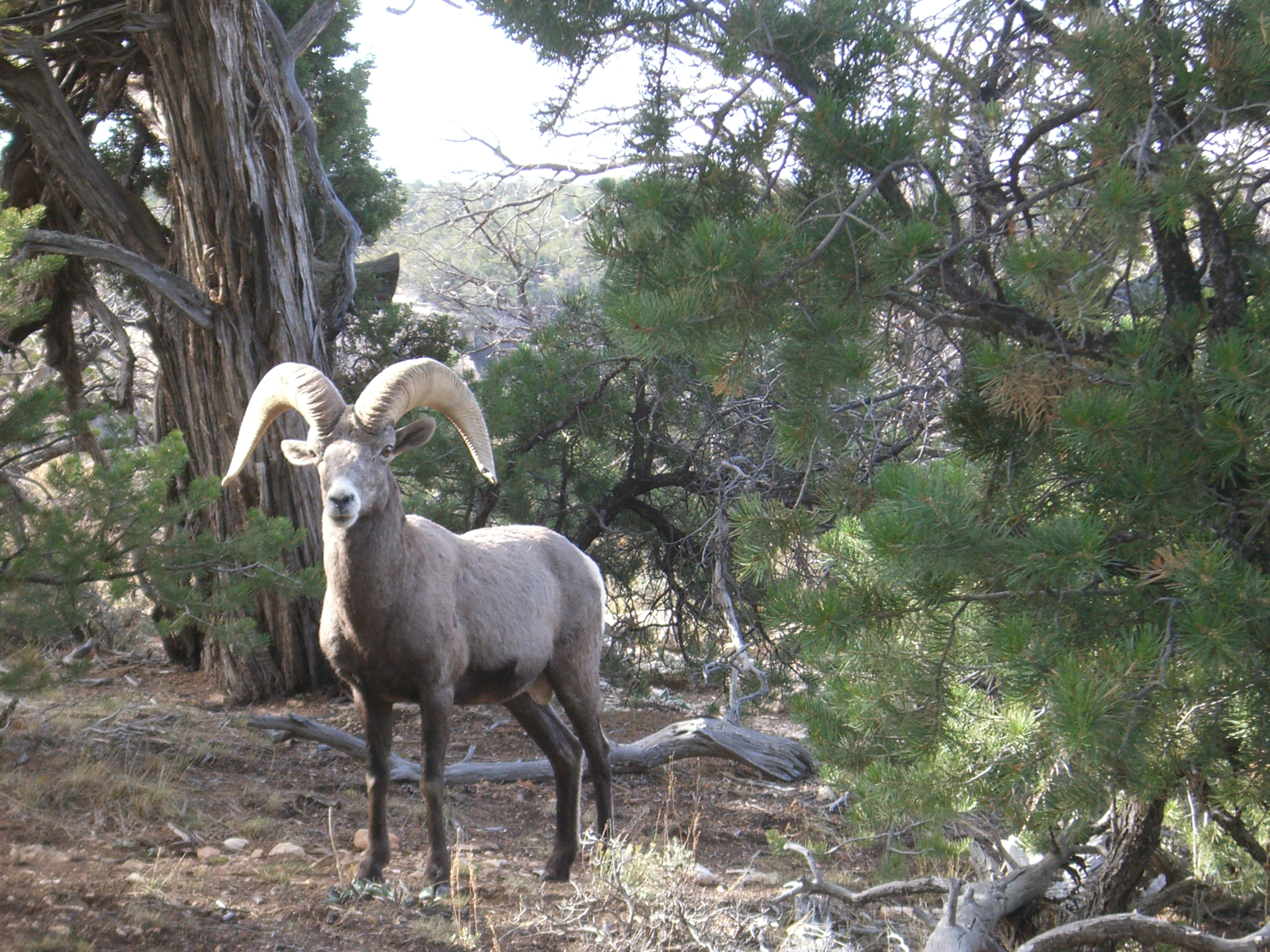 Bighorn sheep (Ovis canadensis), Grand Canyon, Arizona, USA